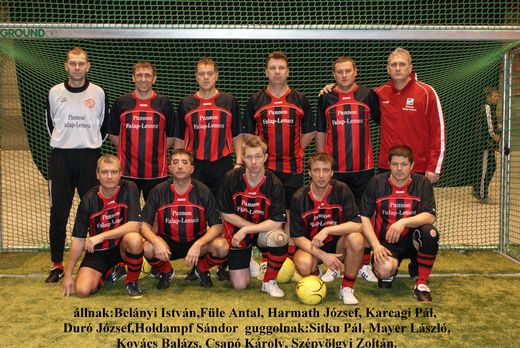 The Dorog FC's currently old boys team was invited to famous cup in Germany in 2011.